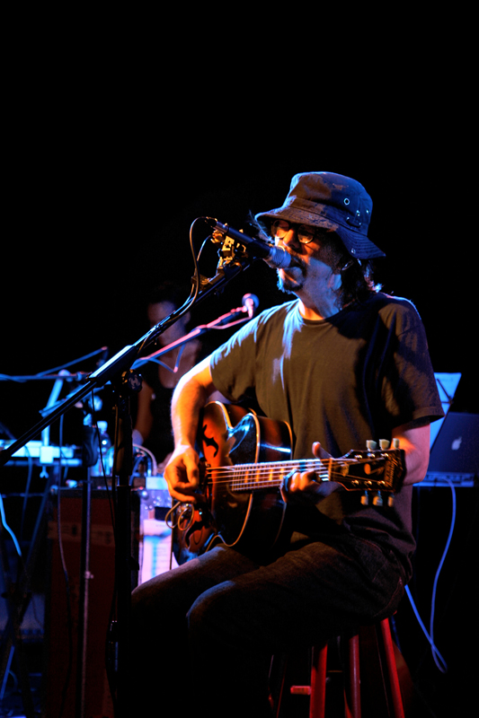 Sparklehorse's Mark Linkous playing live at Transilvania, Milano, Italy. Date: May 22, 2007.